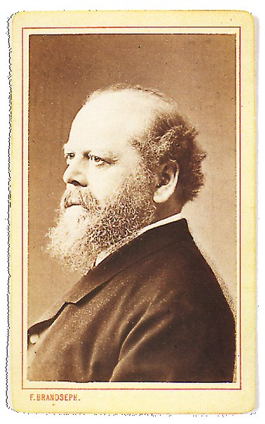 Ludwig Pfau, german writer and revolutionist